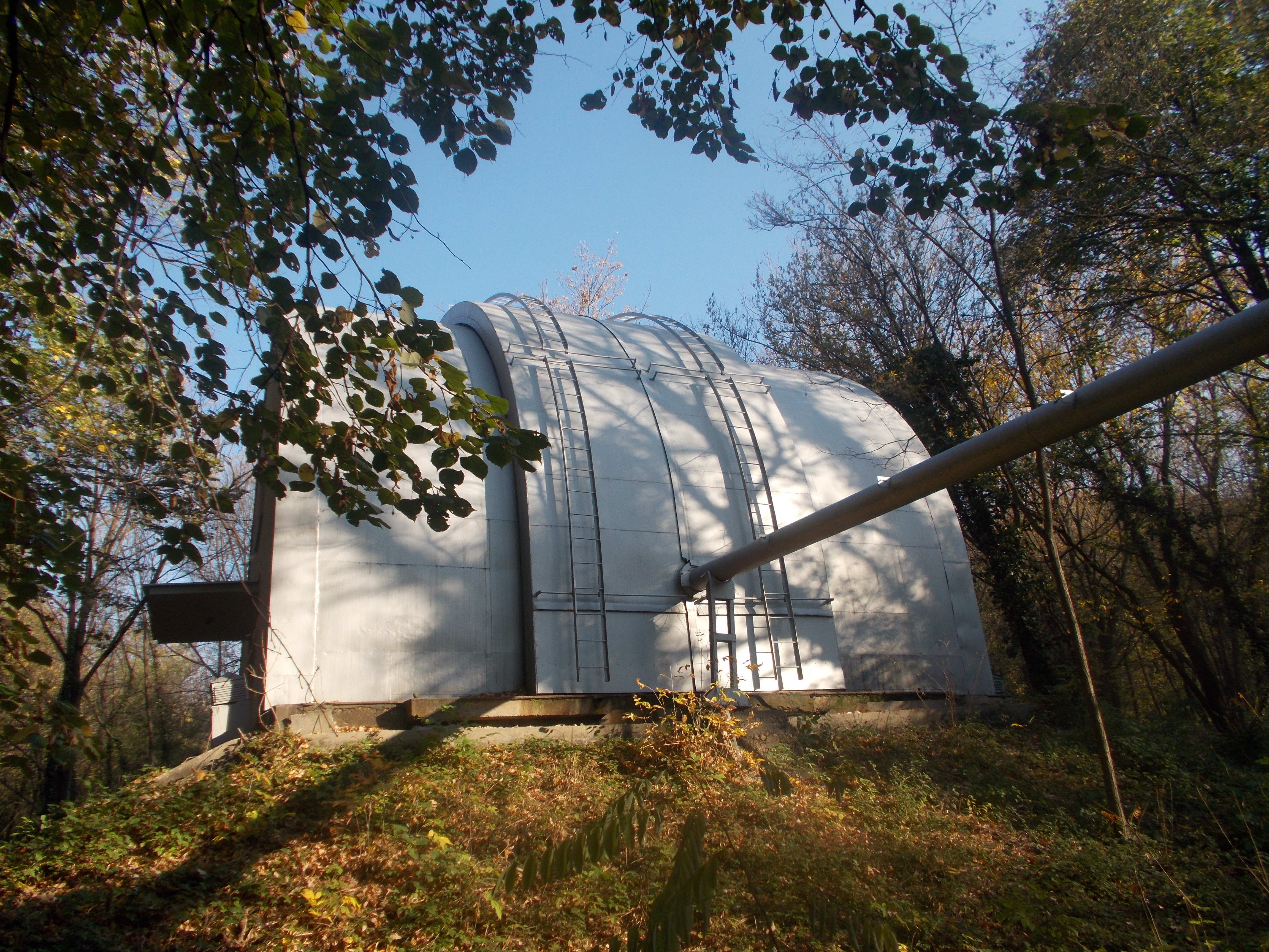 Large Transit Instrument dome provided with two vacuum meridian marks. Instrument: Askania 190 / 2578 mm. Built in 1959.